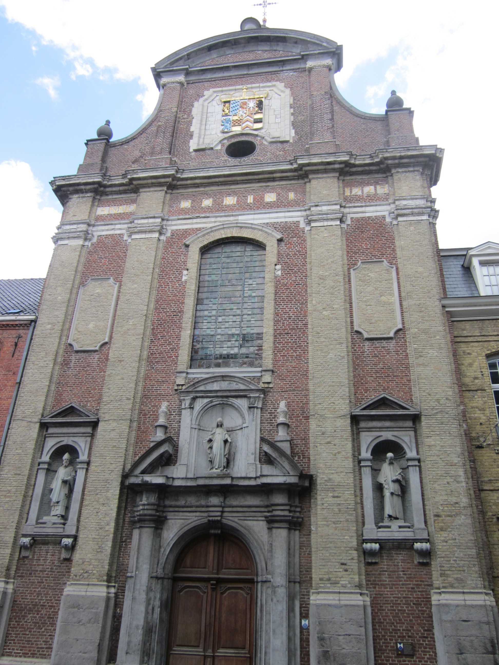 Augustinian church, Klein Seminarie, Roeselare, Belgium